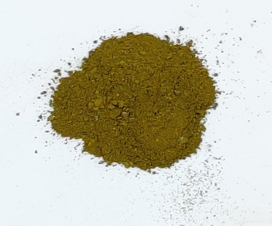 Sample of Ni(NCS)2 powder on a piece of paper